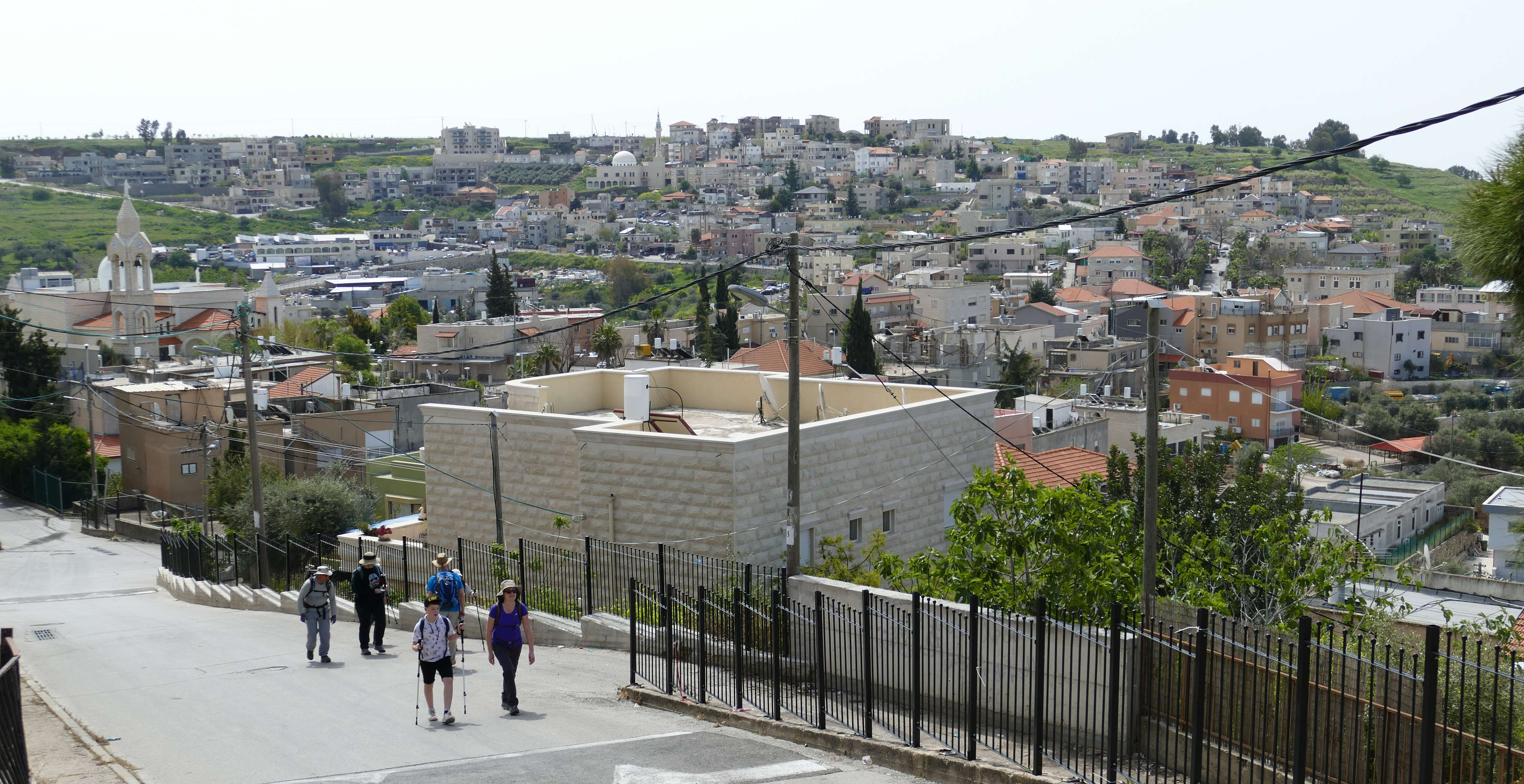 Jish (Gush Halav), Israel.